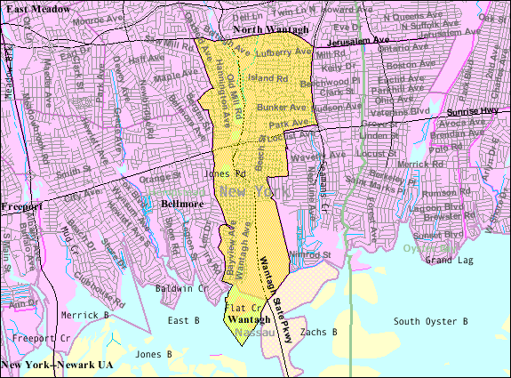 U.S. Census 2000 reference map for Wantagh